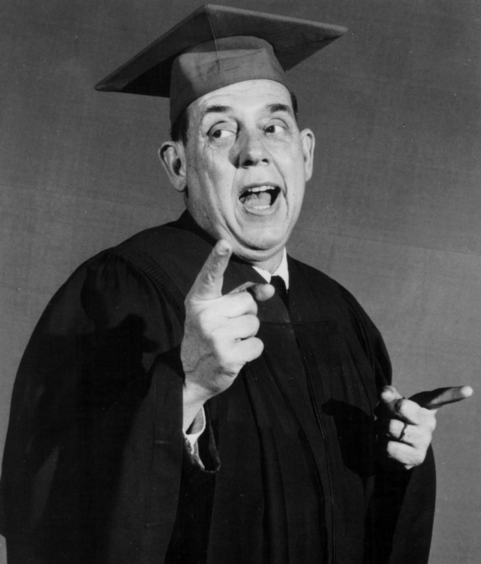 Photo of James Edmonson, Sr. as Professor Backwards.